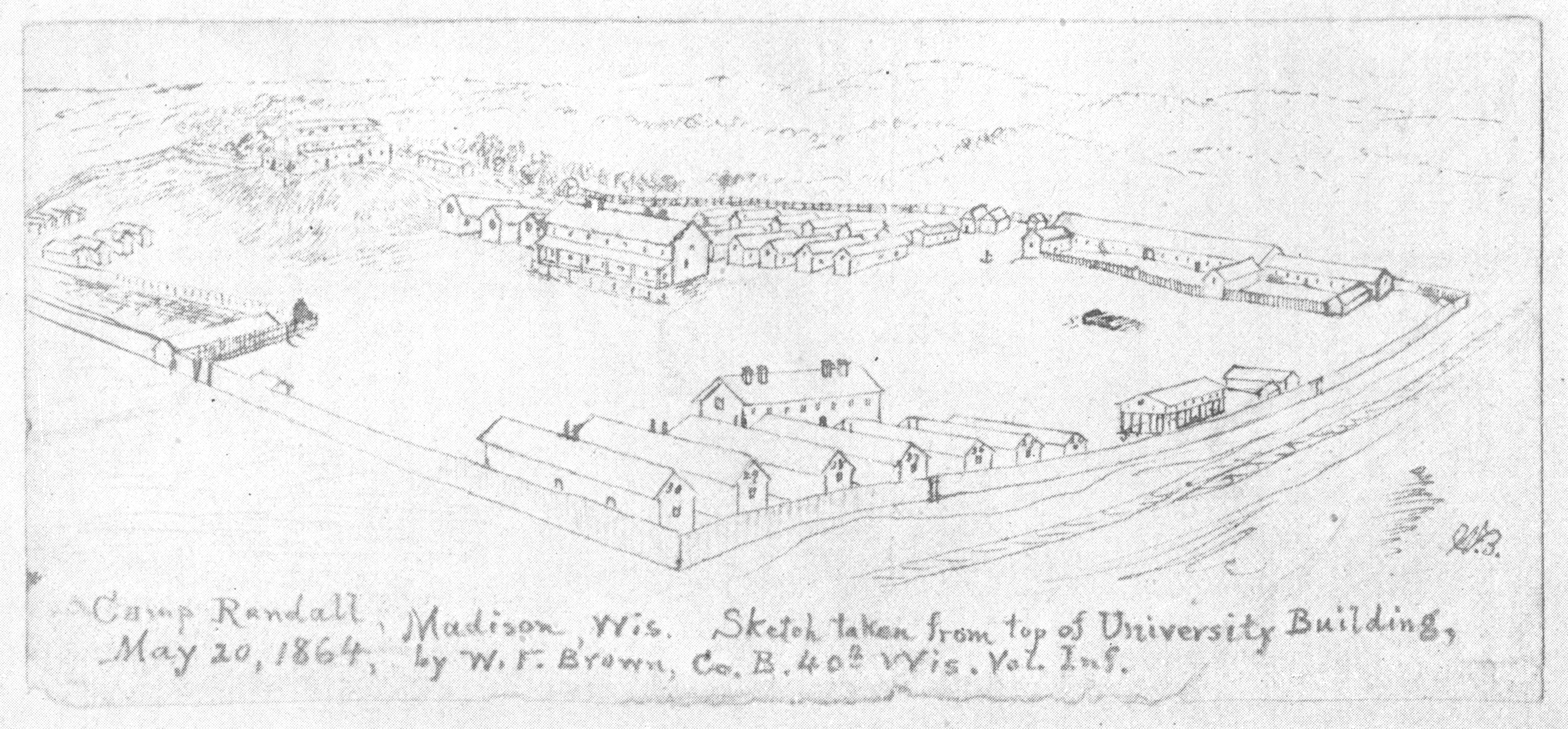 Camp Randall during the civil war. Text on image reads: Camp Rnadall, Madison, Wis. Sketch taken from top of University Building, May 20, 1864, by W. F. Brown, Co. B, 40th Wis. Vol. Inf.